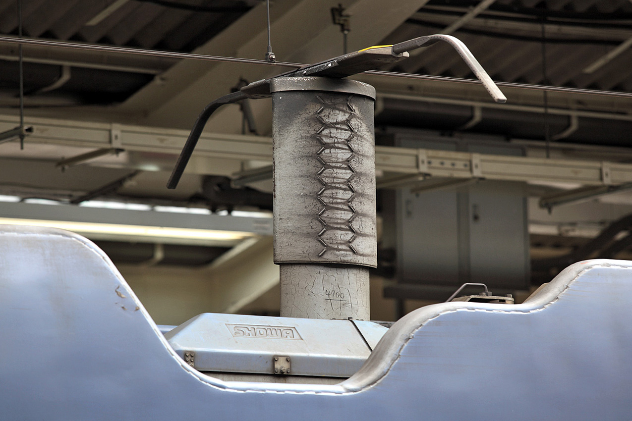 A wing-shaped pantograph of the JR West 500 series Shinkansen train.